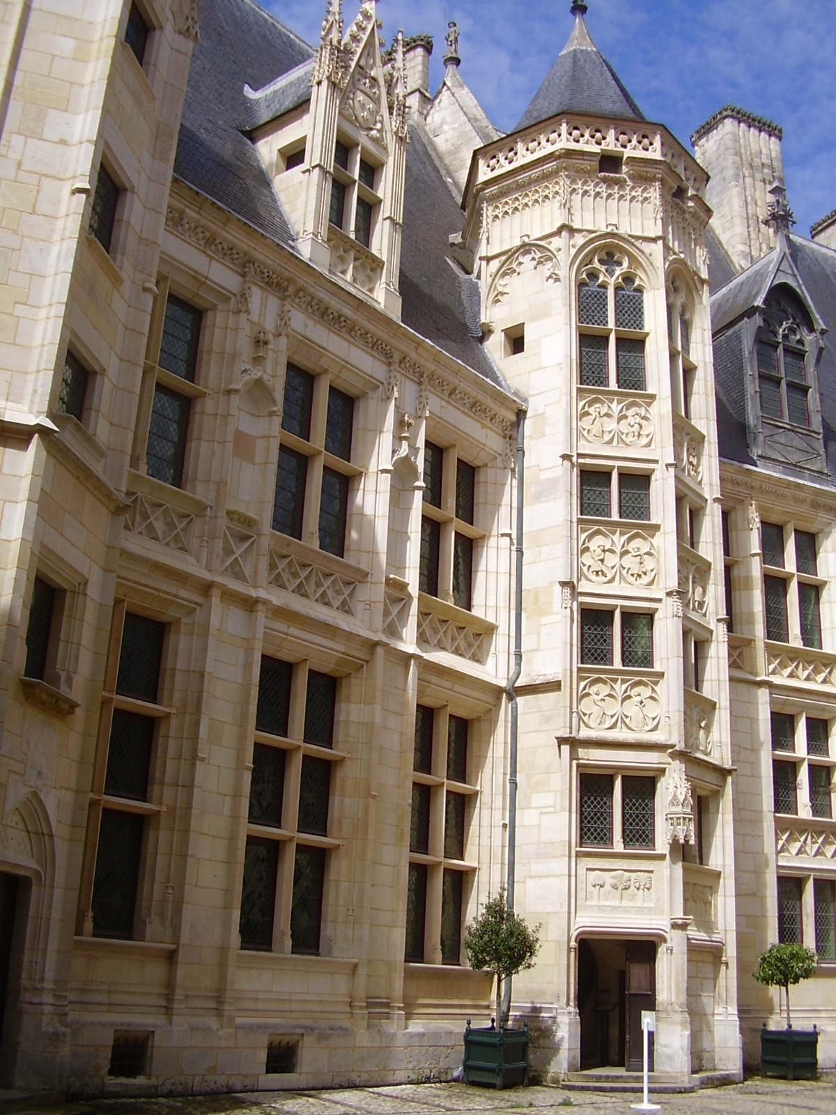 Main tower of the Jacques Coeur Palace from the courtyard (Bourges, France)